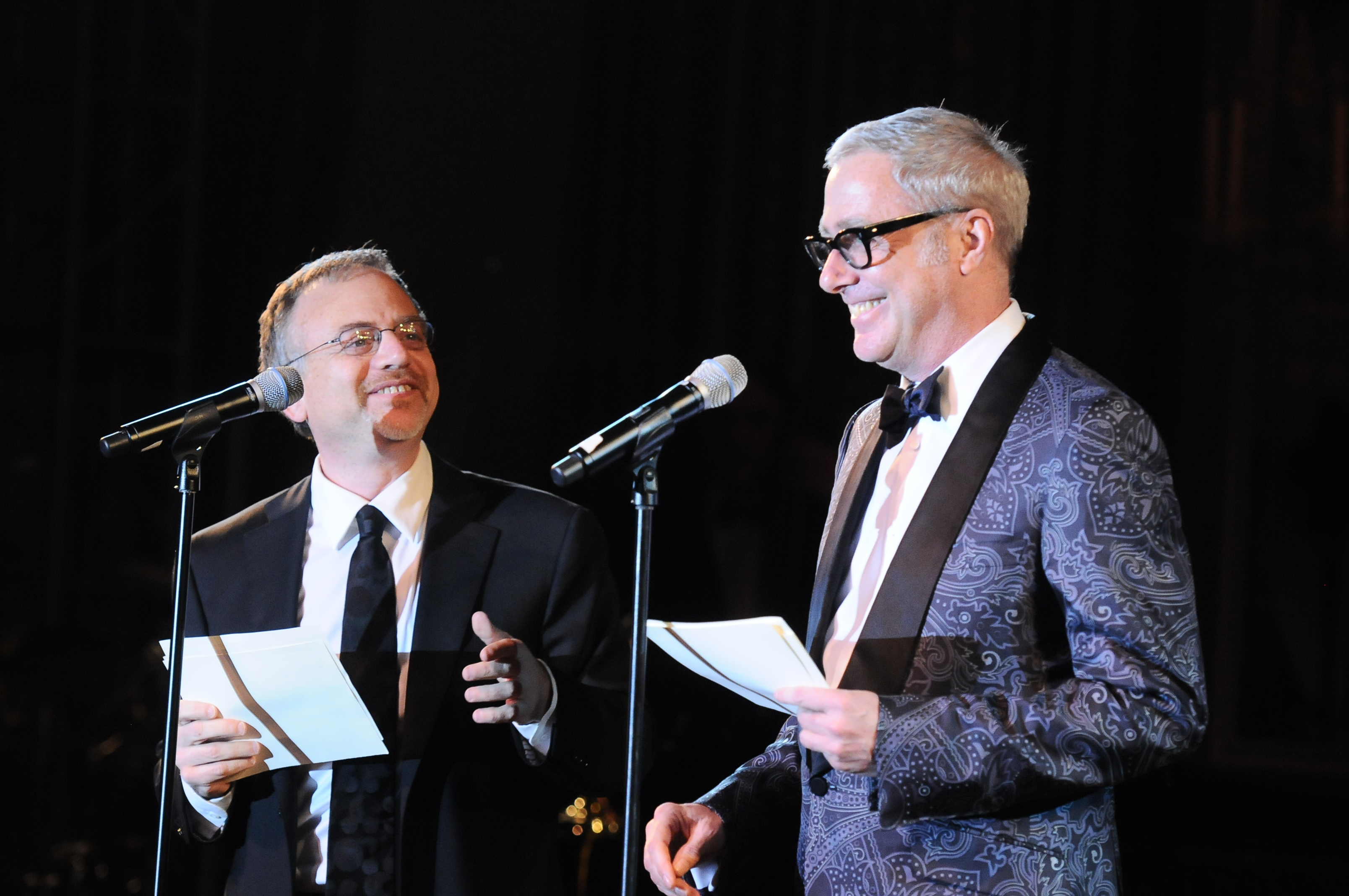 Marc Shaiman, Scott Wittman February 7, 2001